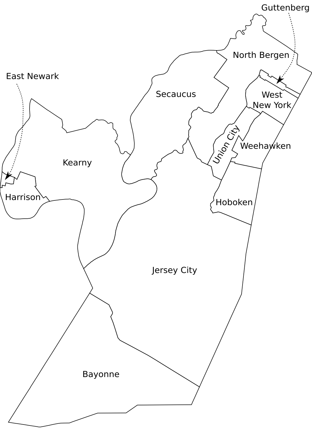 Hudson County, New Jersey outline map of municipalities, labeled. Sources: NJDEP publishes Arcview shape format outline maps of counties and municpalities. Believed ((PD-ineligible)). [1] Converted to SVG, edited in inkscape Labeled according to [2] SVG source: Image:Hudson County, NJ municipalities labeled.svg